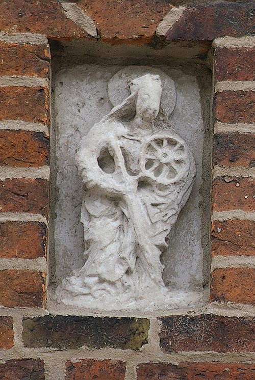 Sculpture St. Chaterine St. Peter church Malmo Sweden about 1460